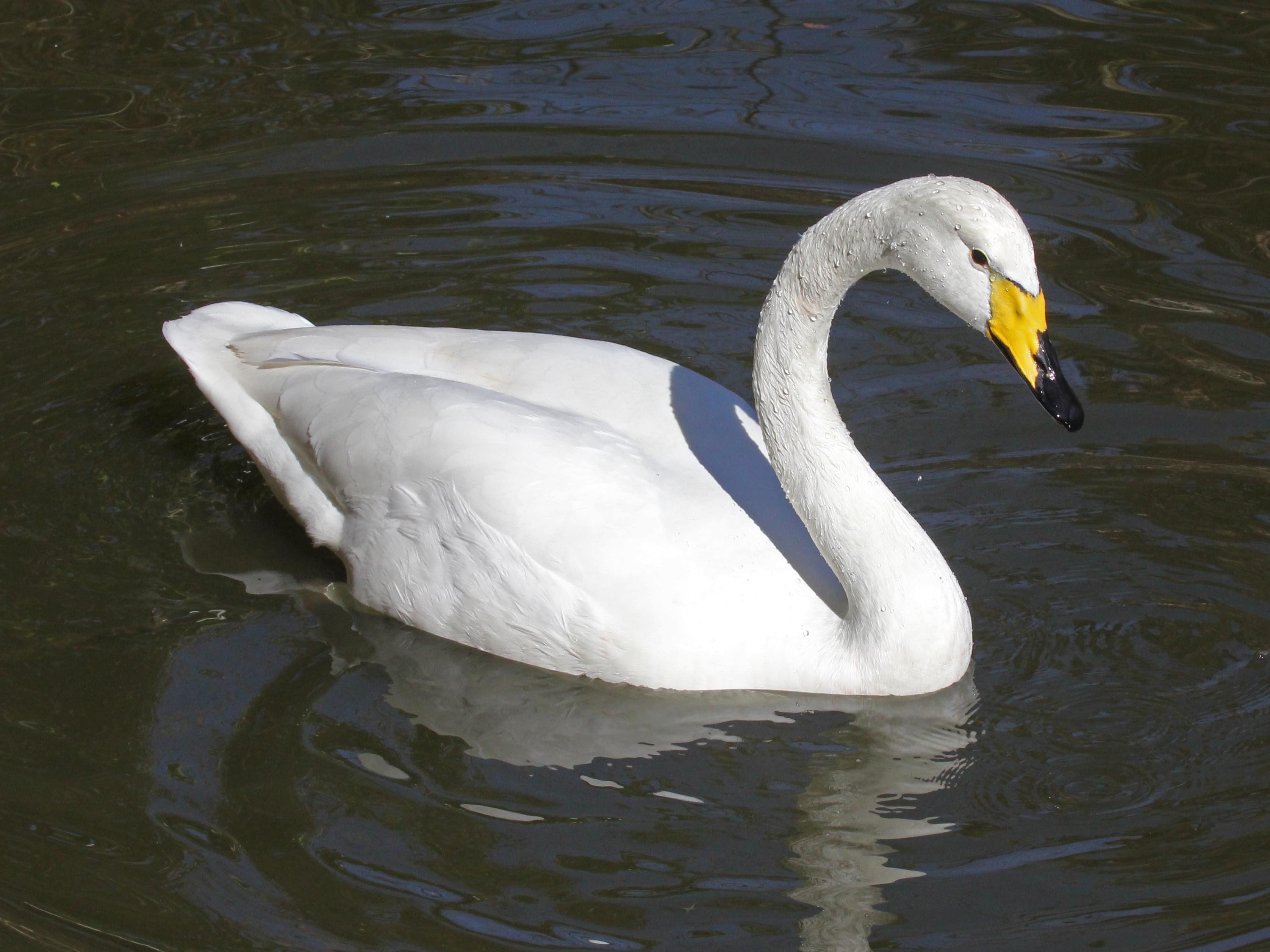 Whooper Swan (Cygnus cygnus) at the Jacksonville Zoo in Florida